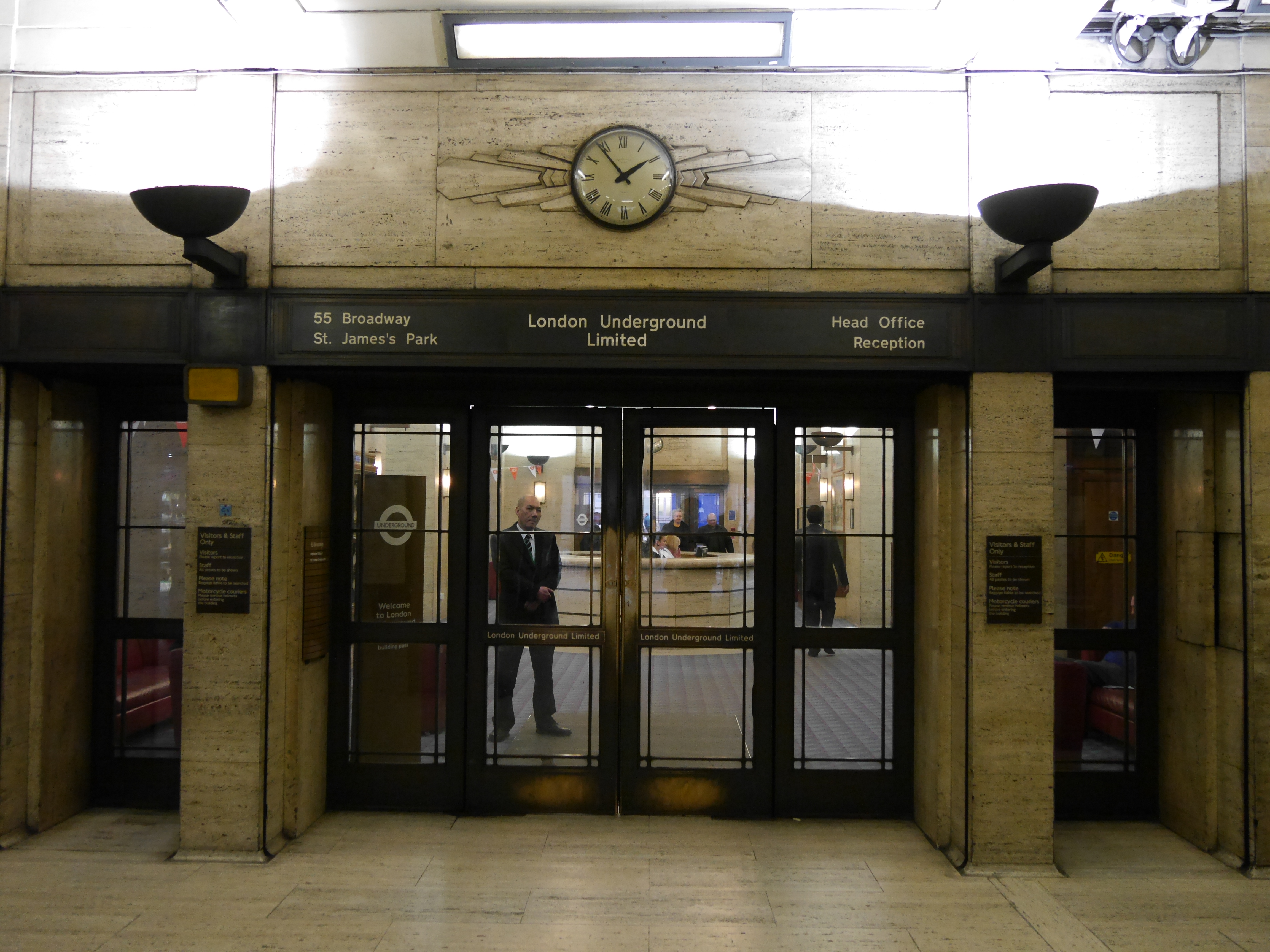 55 Broadway, London